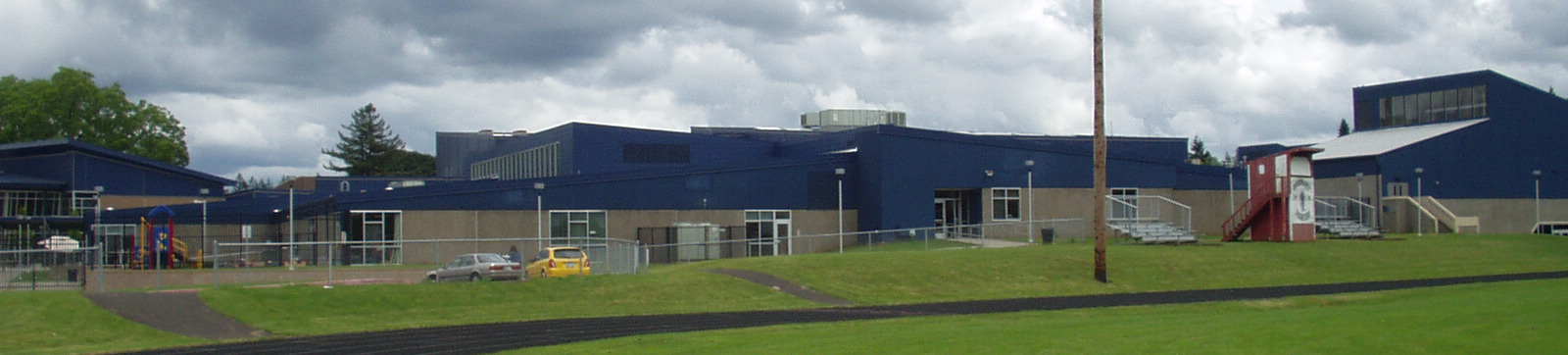 another picture of OCHS high school.